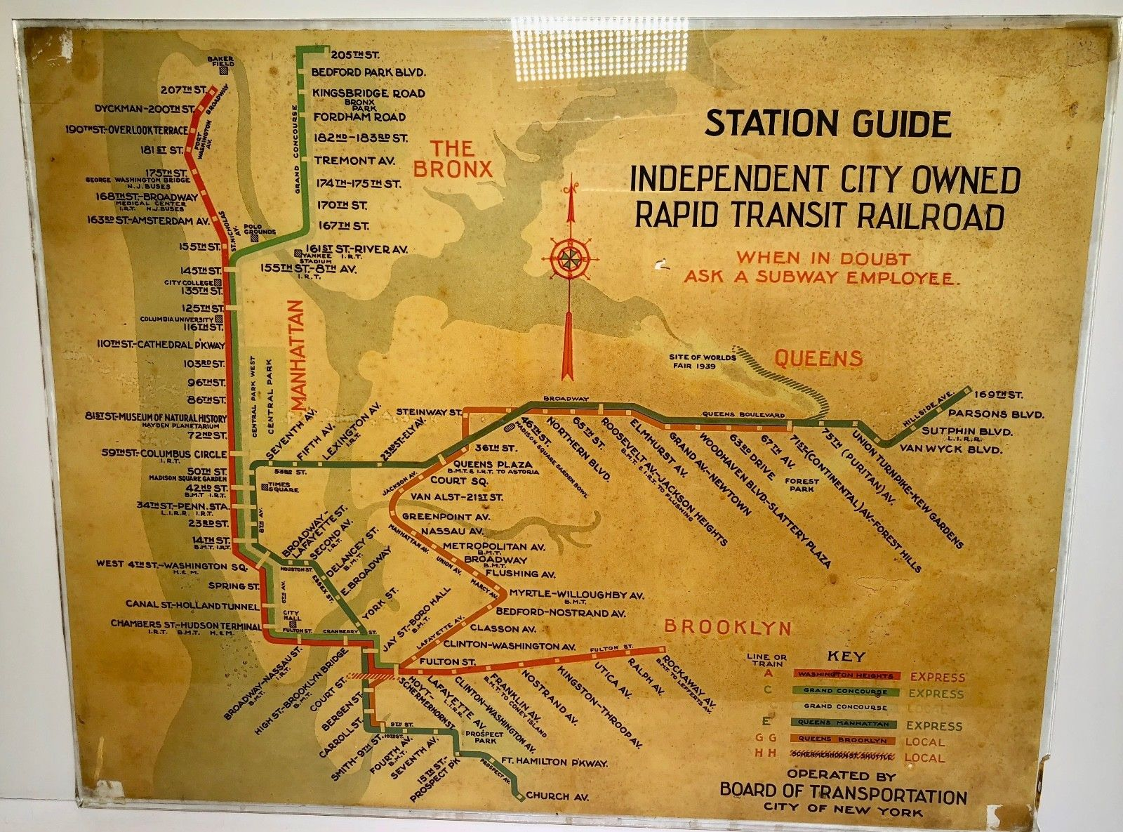 This map from 1939 displays the services of the Independent Subway System, one of the three subway systems operating in New York. Note the inclusion of service to the World's Fair.